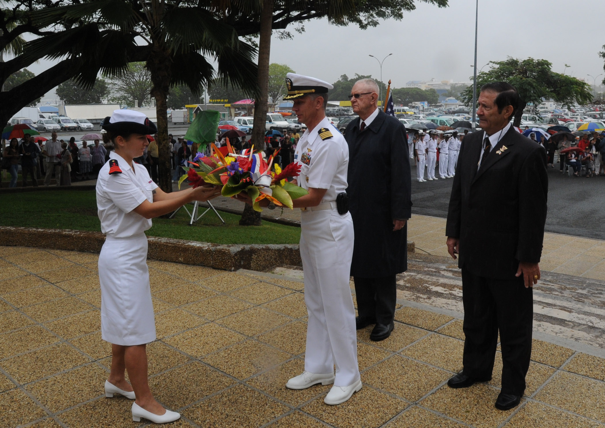 NOUMEA, New Caledonia (Sept. 25, 2009) Capt. Thom Burke, commanding officer of the amphibious command ship USS Blue Ridge (LCC 19) receives a wreath to lay at the U.S. war memorial during a ceremony honouring U.S. service members who helped ensure the freedom of New Caledonia during World War II. (U.S. Navy photo by Mass Communication Specialist Seaman Devon Dow/Released)